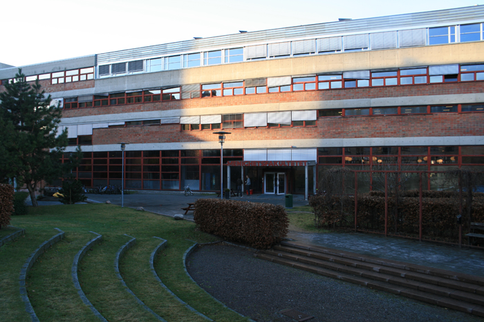 Menighetsfakultetet (MF Norwegian School of Theology) in Oslo